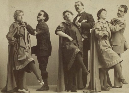 LEFT to RIGHT: Katherine Florence, Ferdinand Gottschalk, Georgia Cayvan, Herbert Kelcey, Bessie Tyree, and Fritz Williams, Lyceum Theatre, Broadway - publicity still for the Arthur Wing Pinero's play The Amazons - original image (see source) cropped